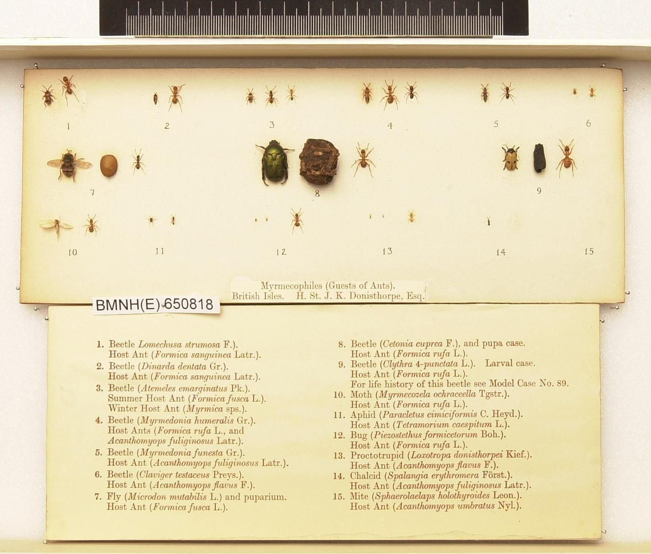 Myrmecophiles (Guests of Ants). British Isles. H. St. J. K. Donisthorpe, Esq. 1. Beetle (Lomechusa strumosa F.). Host Ant (Formica sanguinea Latr.). 2. Beetle (Dinarda dentata Gr.). Host Ant (Formica sanguinea Latr.). 3. Beetle (Atemeles emarginatus Pk.). Summer Host Ant (Formica fusca L.). Winter Host Ant (Myrmica sps.). 4. Beetle (Myrmedonia humeralis Gr.) Host Ant (Formica fusca L., Acanthomyops fuliginosus Latr.).). 5. Beetle (Myrmedonia funesta Gr.). Host Ant (Acanthomyops fuliginosus Latr.). 6. Beetle (Claviger testaceus Preys.). Host Ant (Acanthomyops flavus F.). 7. Fly (Microdon mutabilis L.) and puparium. Host Ant (Formica fusca L.). 8. Beetle (Cetonia cuprea F.), and pupa case. Host Ant (Formica rufa L.). 9. Beetle (Clythra 4-punctata L.). Larval case. Host Ant (Formica rufa L.). For life history of this beetle see Model Case No. 89. 10. Moth (Myrmecozela ochraceella Tgstr.). Host Ant (Formica rufa L.). 11. Aphid (Paracletus cimiciformis C. Heyd.). Host Ant (Tetramorium caespitum L.). 12. Bug (Piezostethus formicetorum Boh.). Host Ant (Acanthomyops flavus F.). 13. Proctotrupid (Loxotropa donisthorpei Kiev.) Host Ant (Acanthomyops flavus F.). 14. Chalcid (Spalangia erythromera Först.). Host Ant (Acanthomyops flavus F.). 15. Mite (Sphaerolaelaps holothyroides Leon.). Host Ant (Acanthomyops umbratus Nyl.).